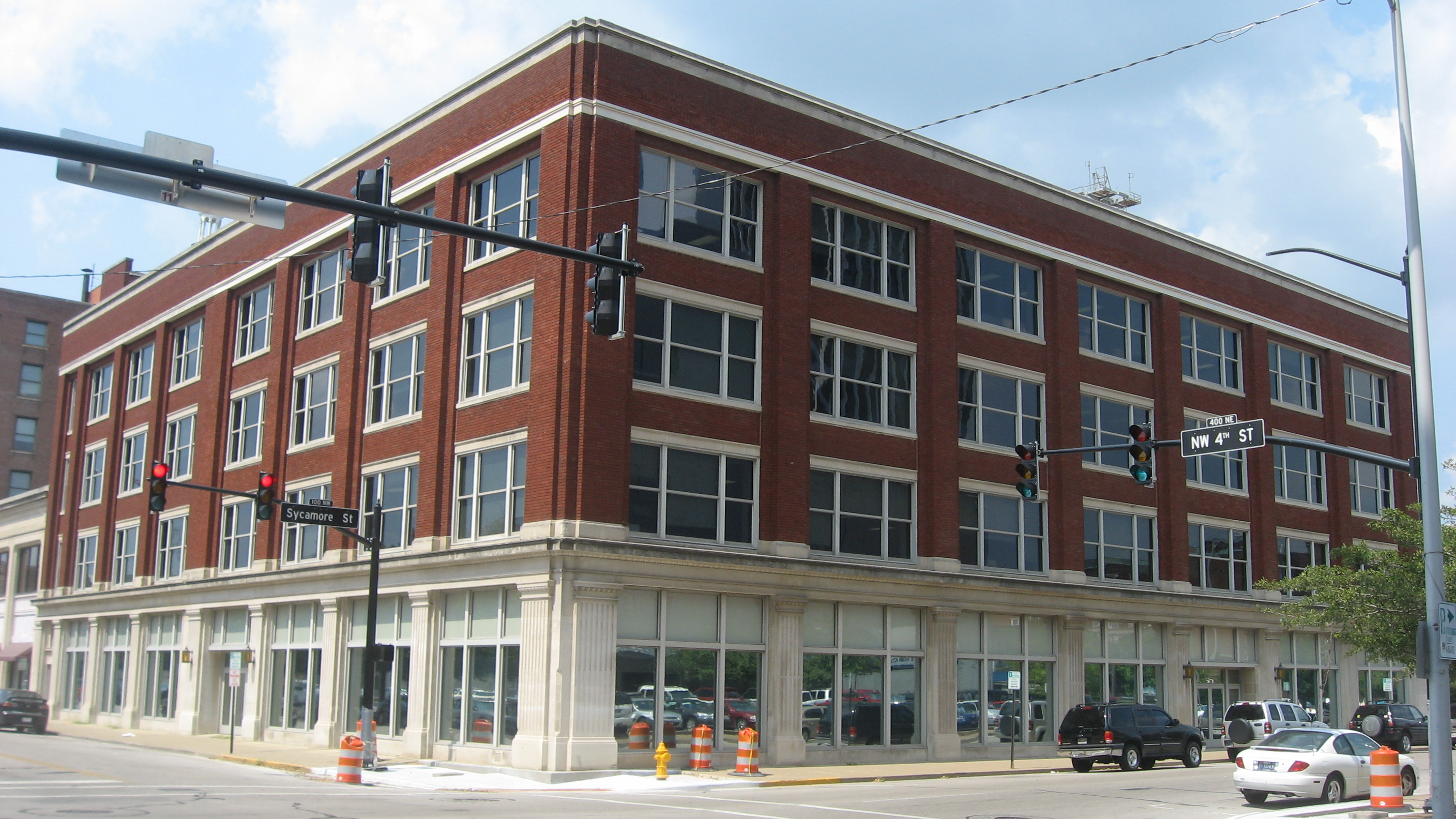 Front and southwestern side of the McCurdy Building, located at 101 NW. Fourth Street in Evansville, Indiana, United States. Built in 1920, it is listed on the National Register of Historic Places.